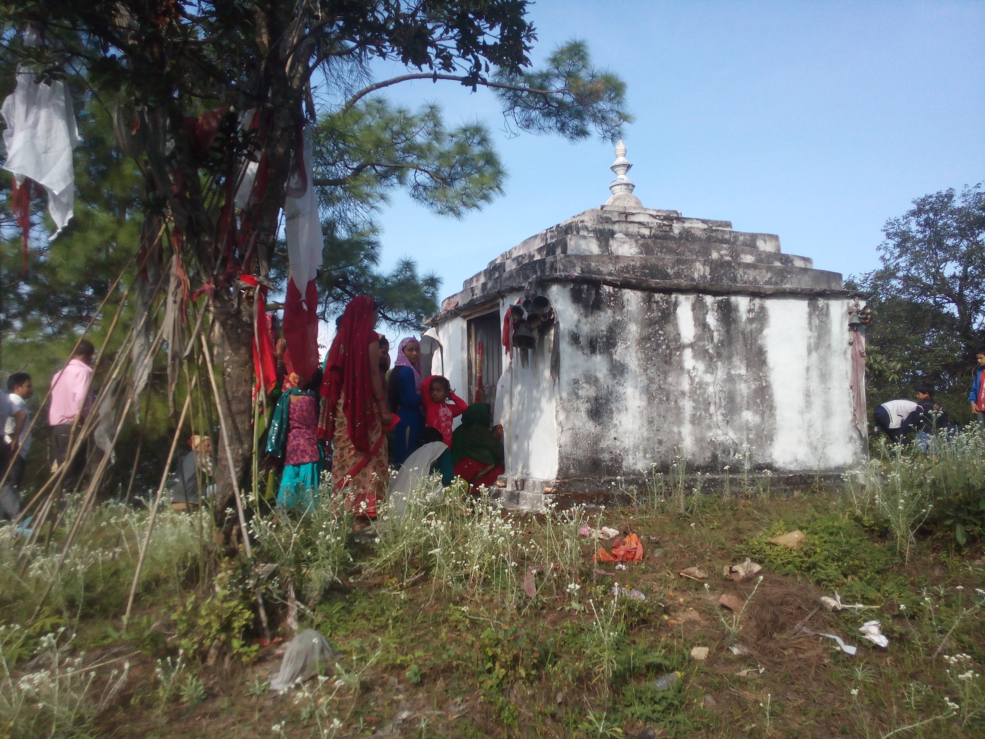 नेपाली: This image is the property of Krishna Bahadur Chand Sodari from Kalagaun-07, Achham